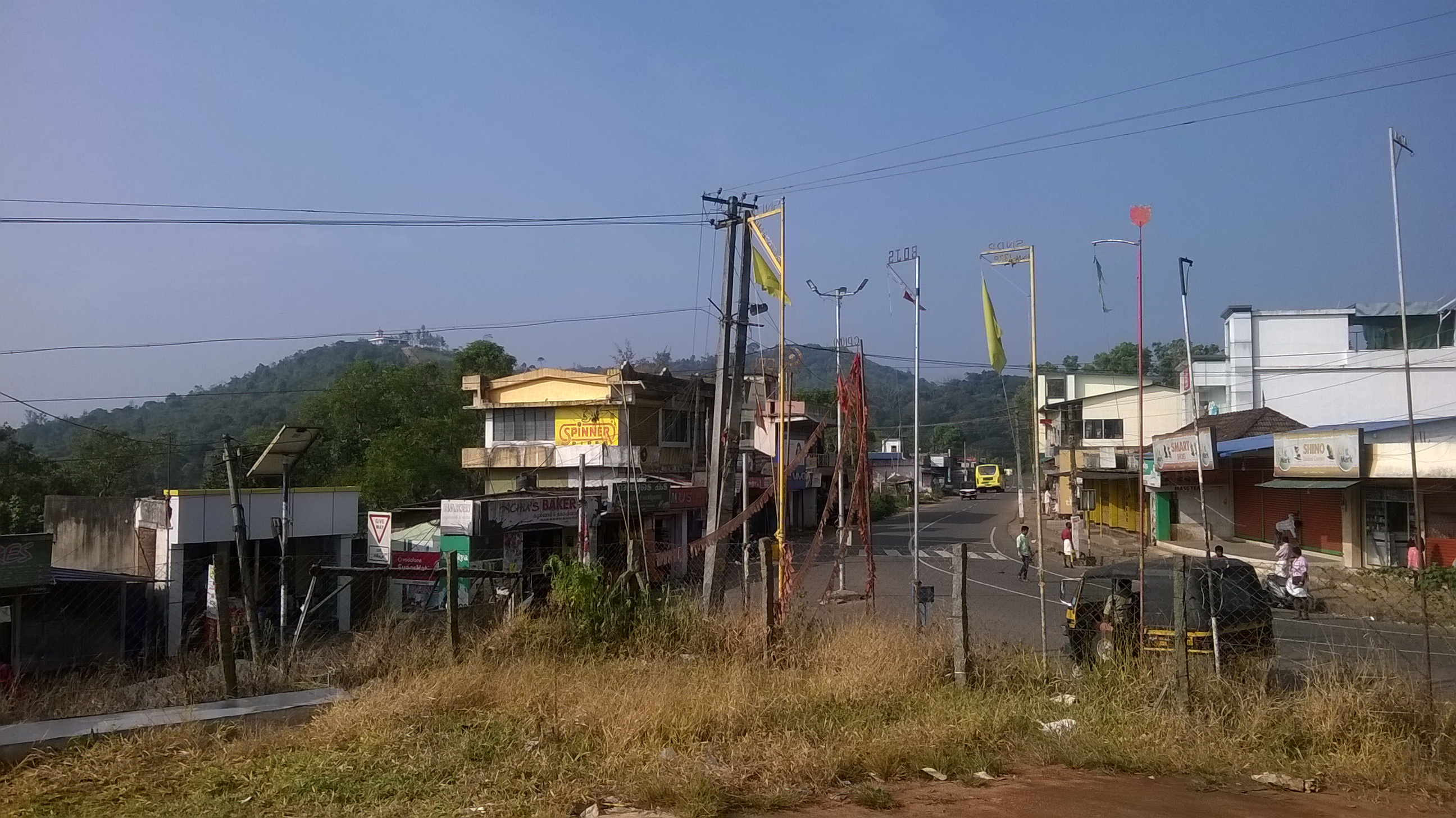 this is the image of a place called puttady in idukki district of kerala